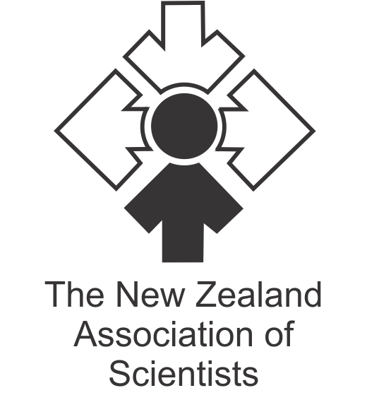 1980s NZAS logo as designed by Wren Green and still in use.